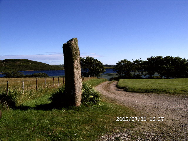 Standing Stone in grounds of Achaban House, Fionnphort, with Loch Poit na h-I (Loch Pottie) in background. A notch on the top of the Standing Stone is aligned with the North Star.